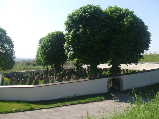 Ihringen, Germany: Jewish cemetery